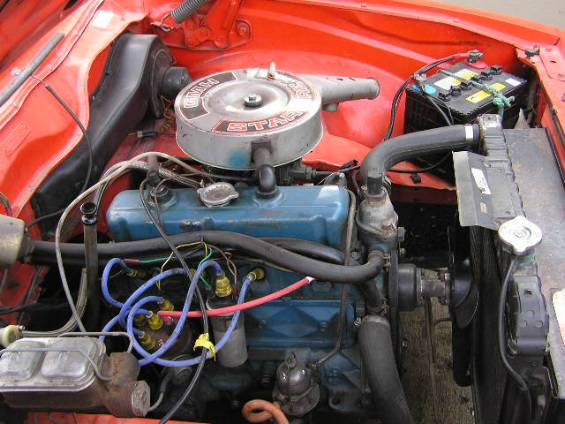 1.9 litre Starfire engine of a 1976–1978 Holden LX Sunbird sedan. Note that the Holden Sunbird did not carry the Torana name.